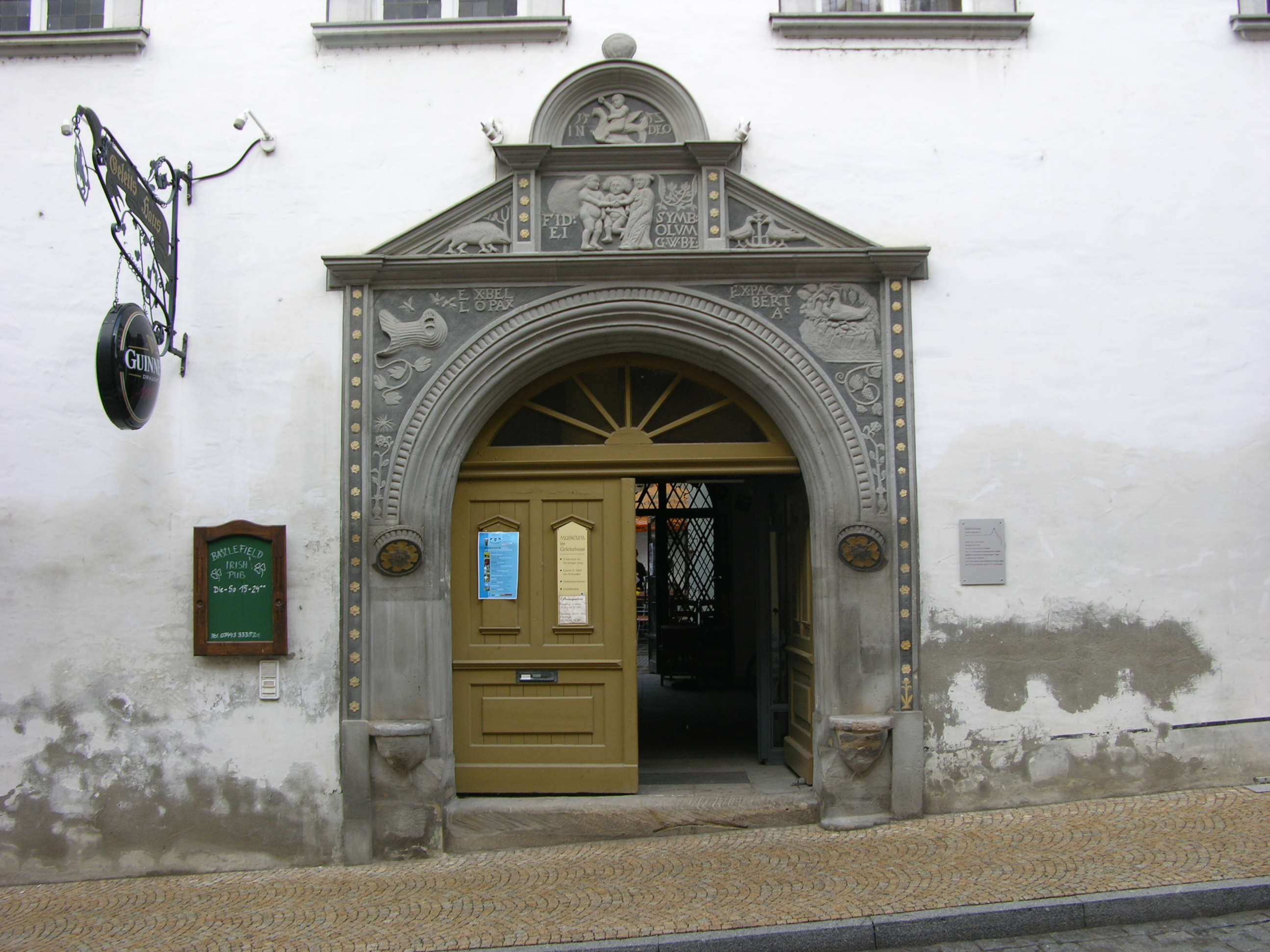 Entrance of Geleitshaus (Weissenfels, Saxony-Anhalt, Germany)